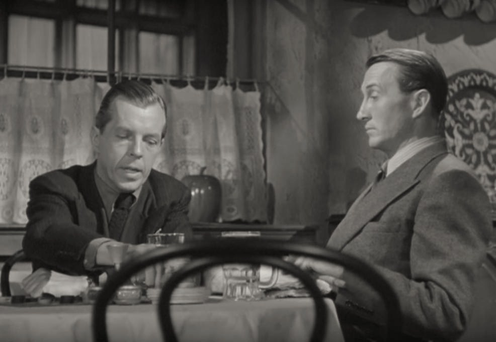 Rudolph Anders (left) & Paul Fix in Sherlock Holmes and the Secret Weapon - cropped screenshot